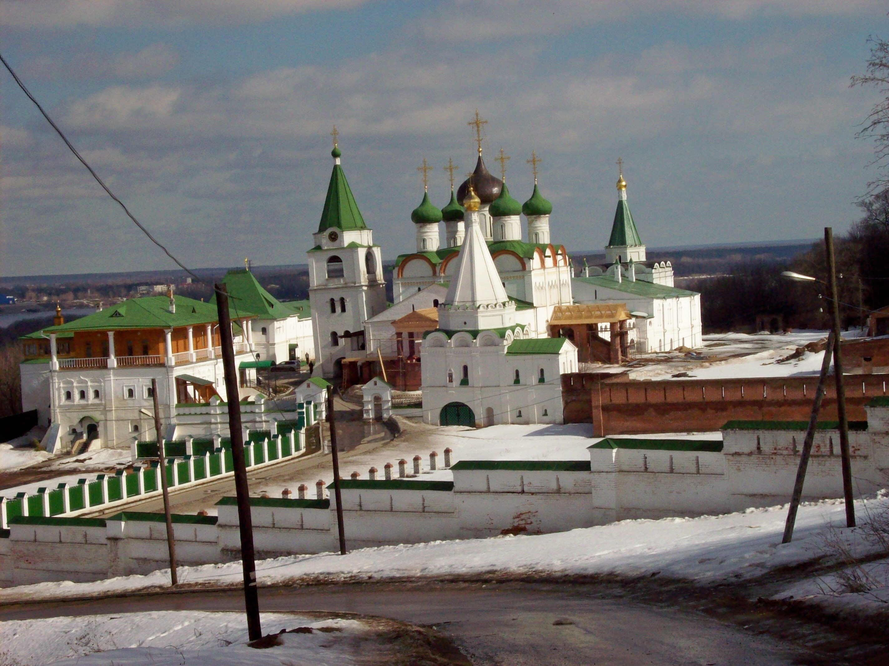 Pechersky_Monastery_in_Nizhny_Novgorod